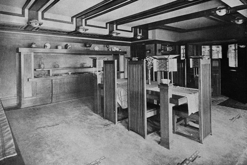 Frederick C. Robie House, Chicago, Illinois - interior.